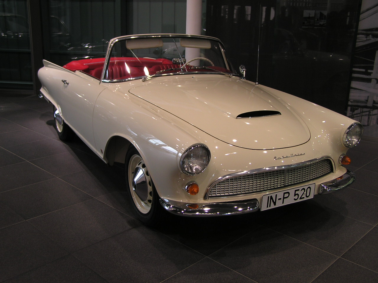 Auto Union 1000 SP Roadster